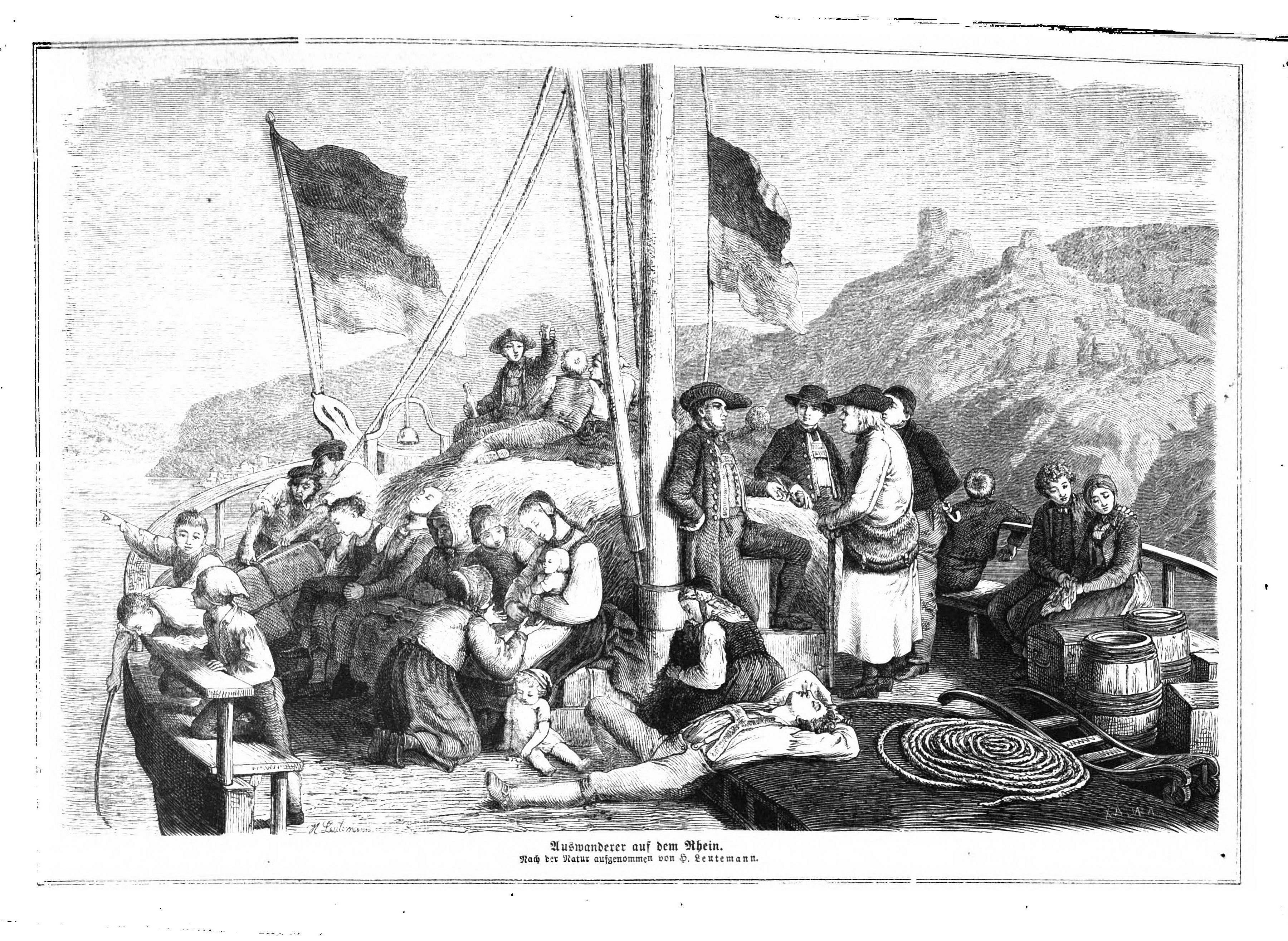 no caption